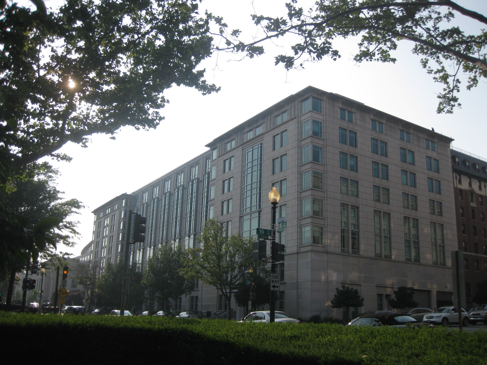 The Elliott School as scene across the street from a park in front of the General Services Administration. The Elliott School building, at 1957 E St NW, occupies the 19th to 20th Street block on E Street.